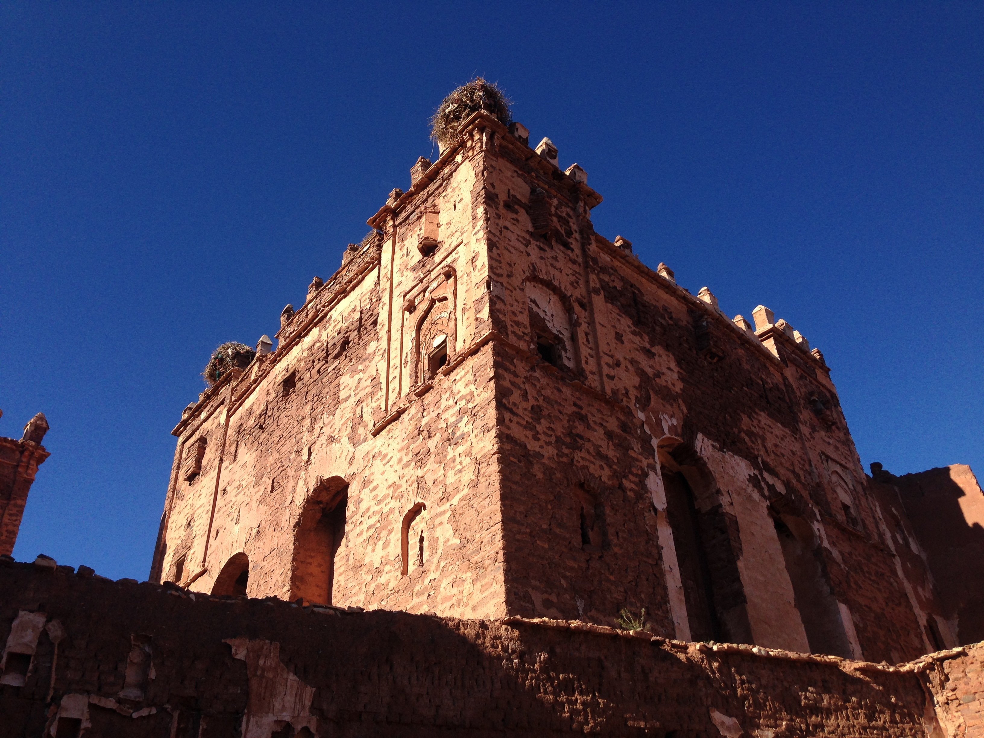 View of the main tower of Kasbah Glaoui, in Télouet Morocco